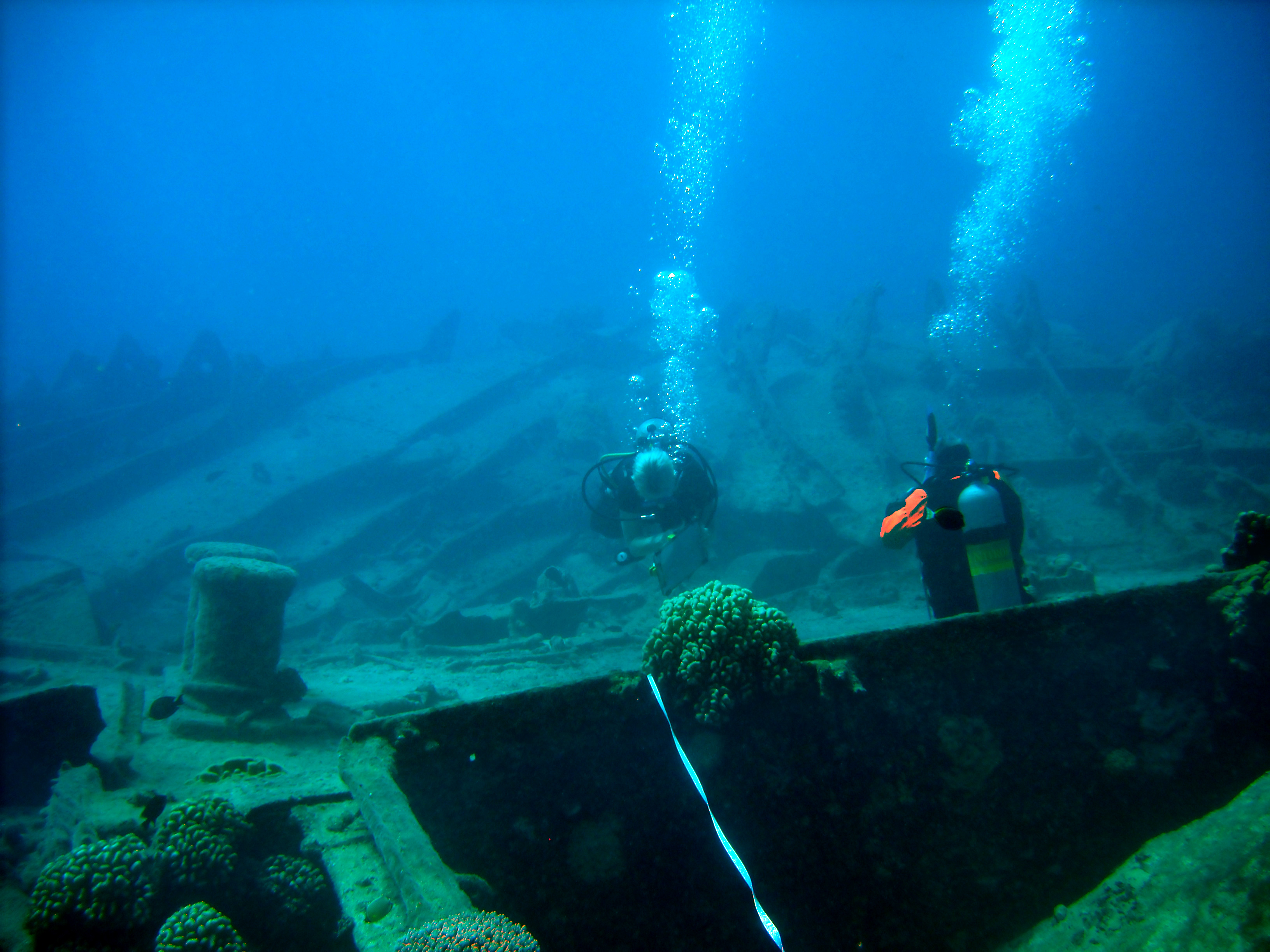 Archaeologists surveying the sunken auxiliary vessel on the Maritime Heritage Trail - Battle of Saipan, Tanapag Lagoon. Presumably the torpedoed Shoan Maru.